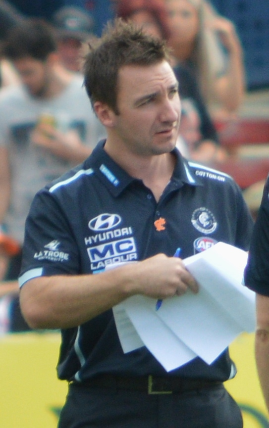 Nick Rutley during the round 6, 2018 AFL Women's match between Carlton and Melbourne.